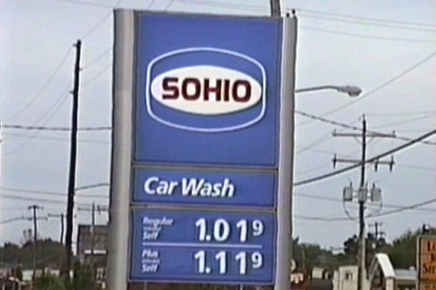 Sohio sign circa 1989. Sohio's final logo.